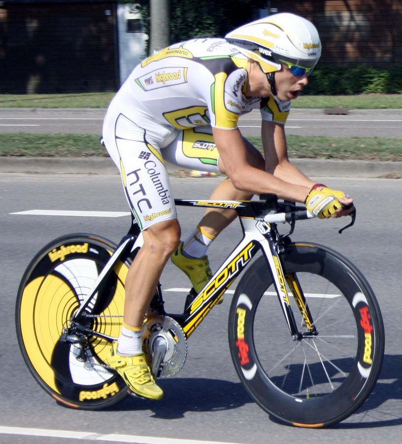 Tony Martin at the 2009 Eneco Tour prologue